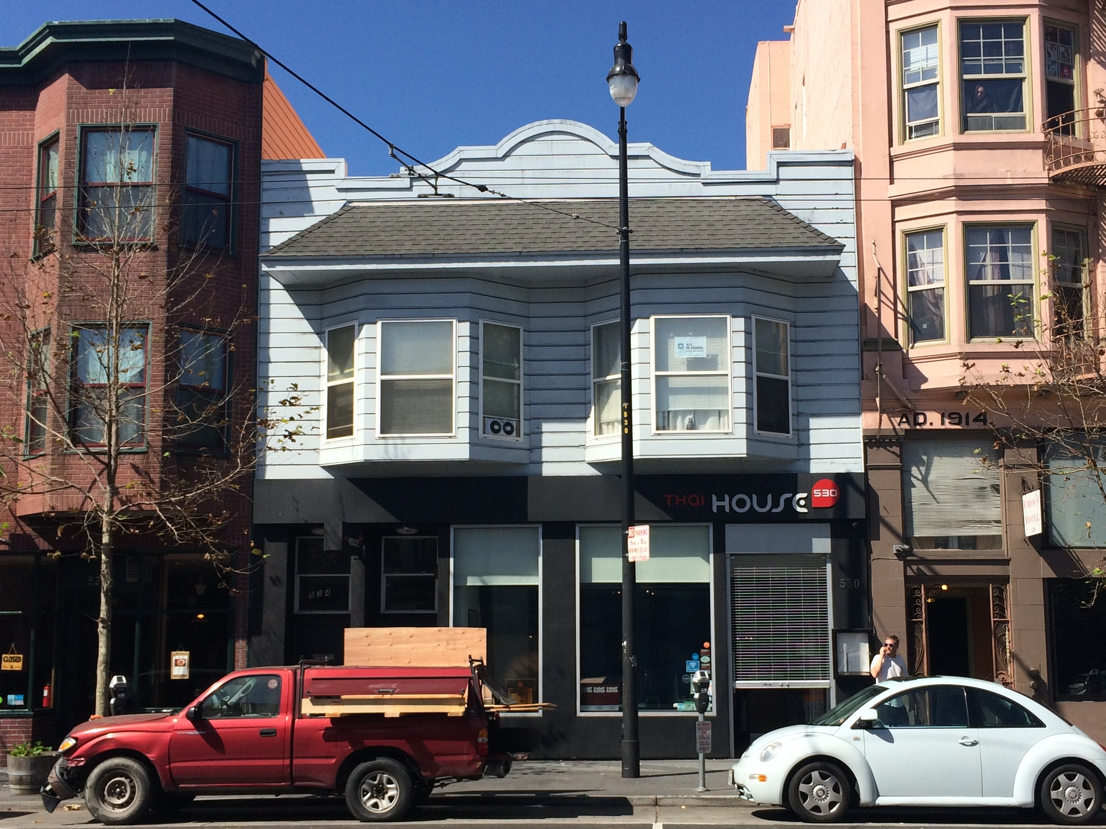 530 Valencia Street in the Mission District, former location of The Deaf Club, now Thai House 530 (a restaurant)